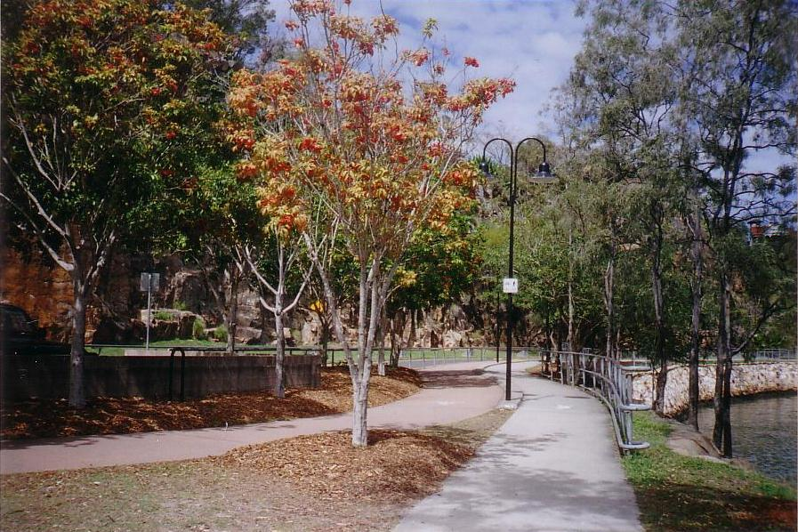 The Kangaroo Point Cliffs walking track, with the cliffs to the left and Brisbane River to the right